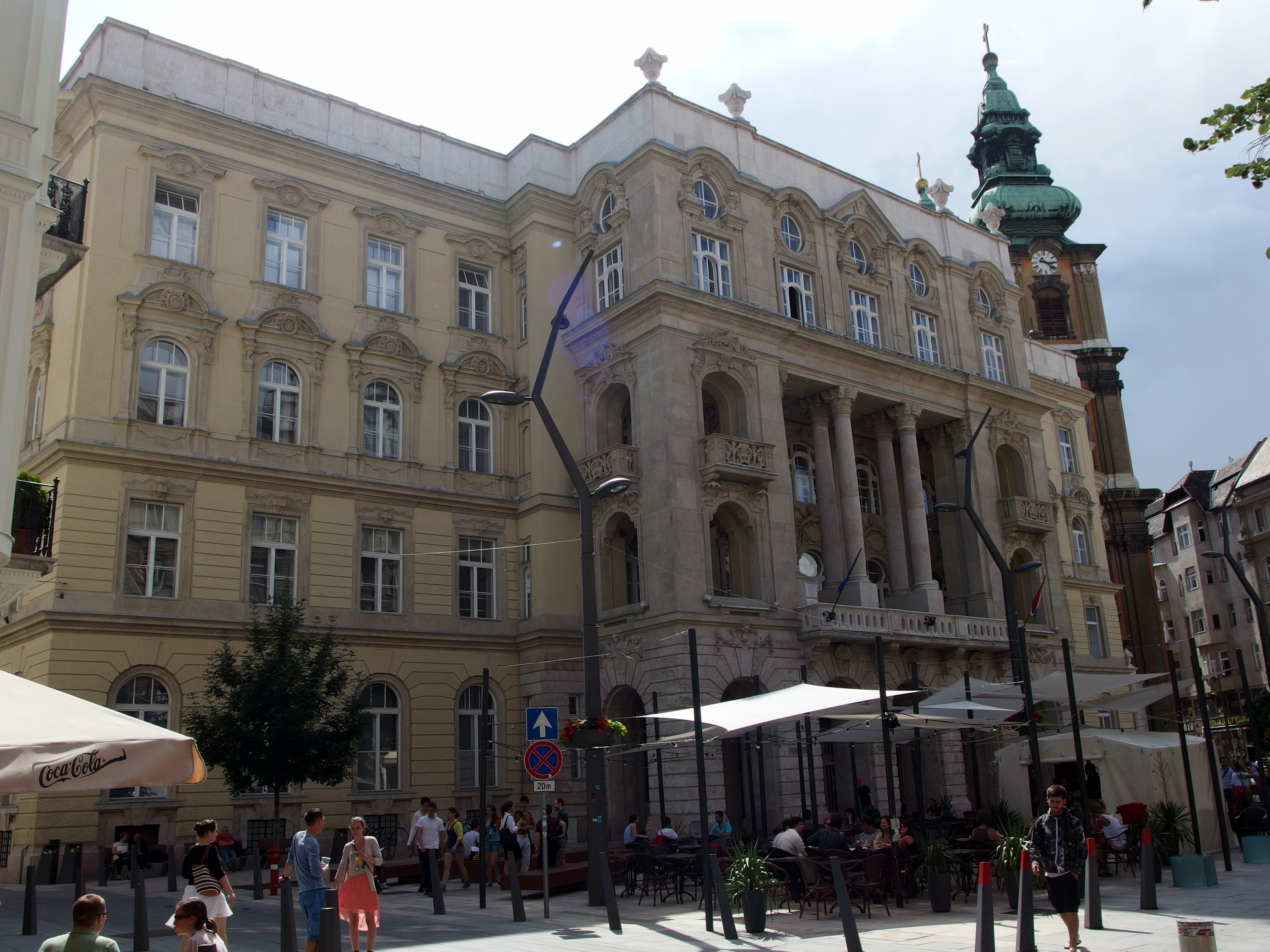 2013-06-12 in Budapest.